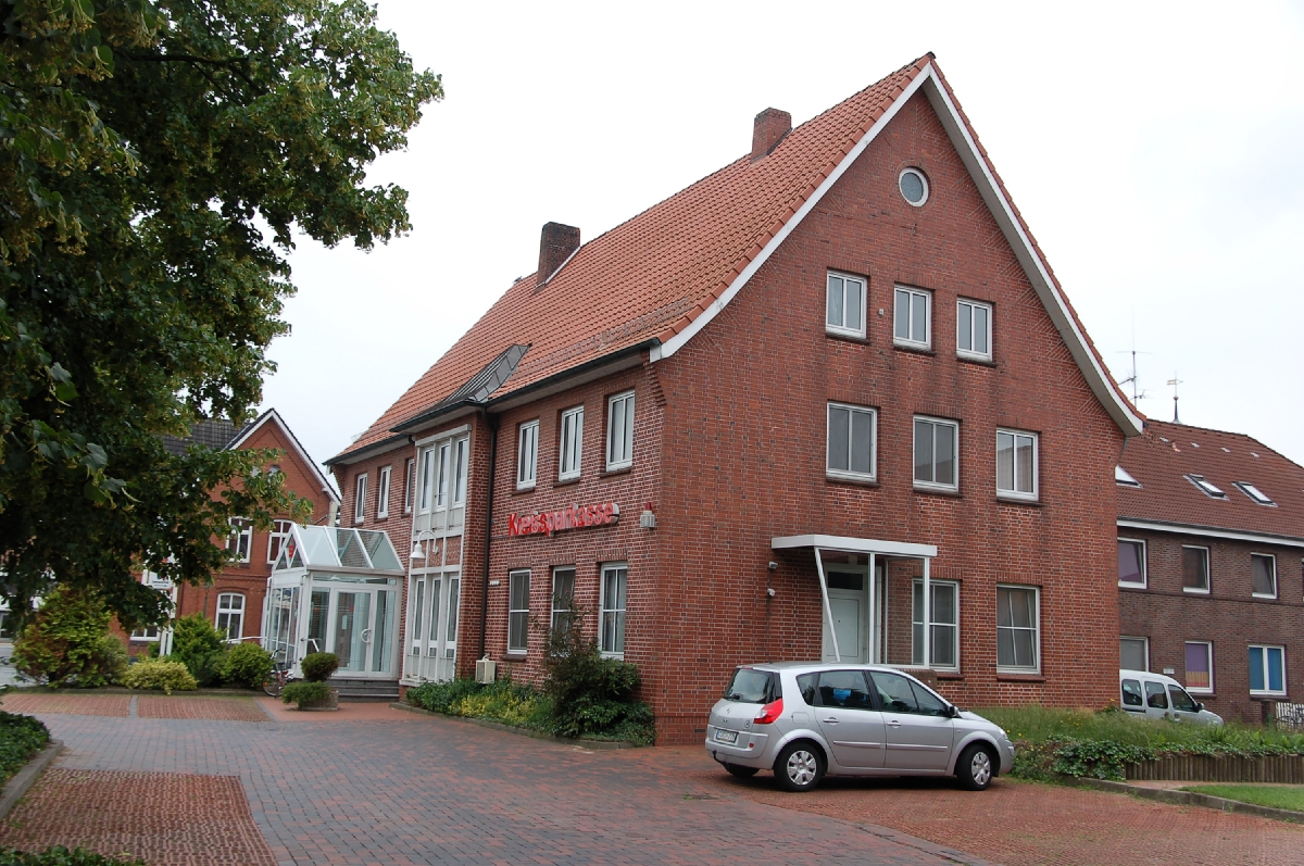 Pictures